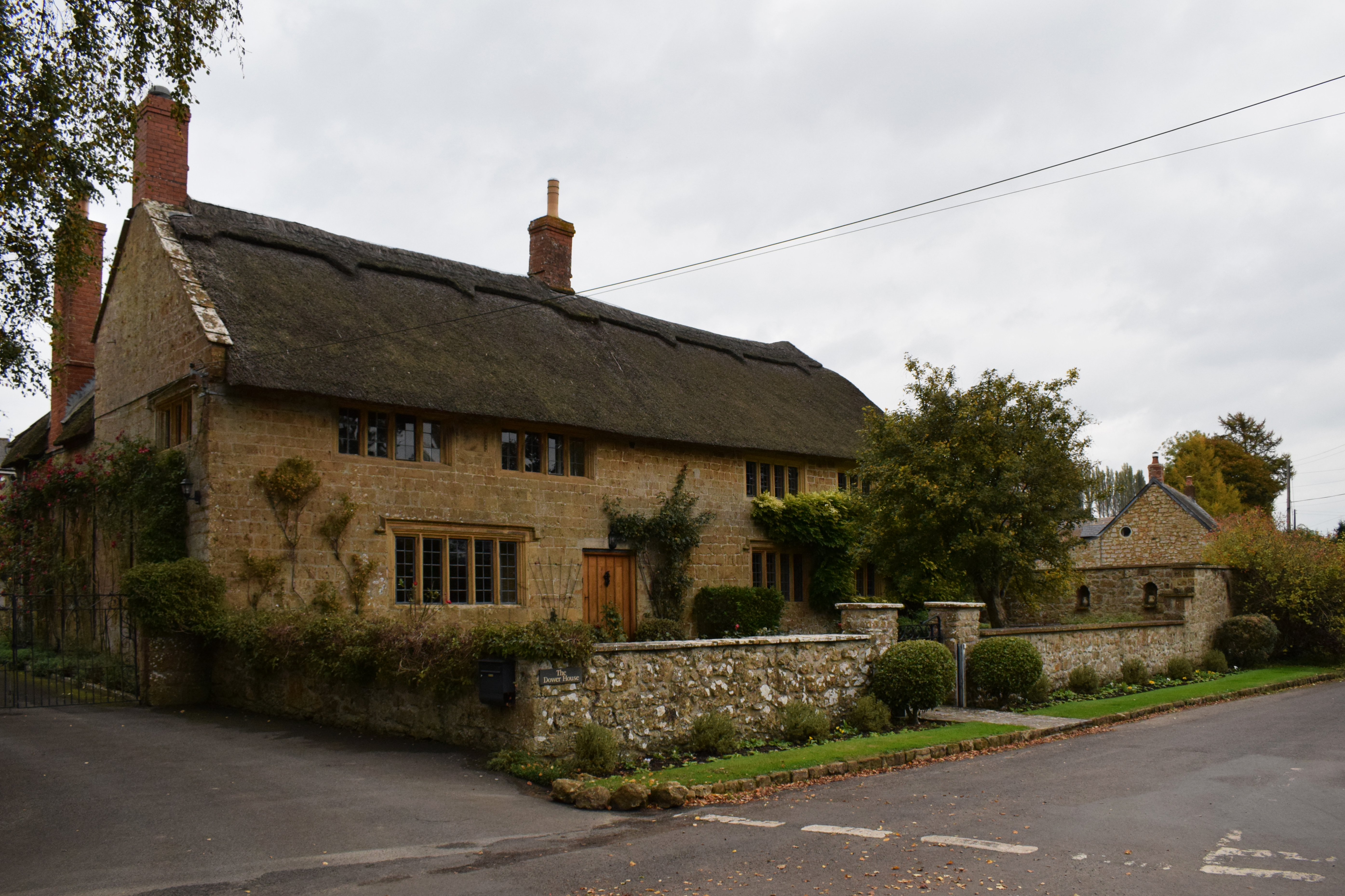 The Dower House Wikidata has entry Q26472111 with data related to this item.